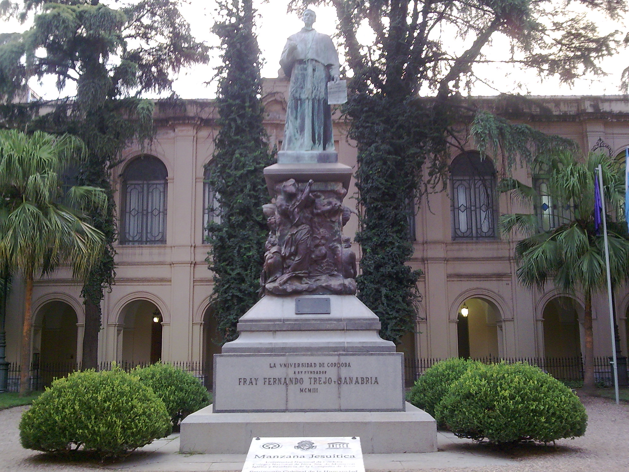 Statue of friar Fernando Trejo and Sanabria, located inside Jesuit block, Cordoba, Argentina.